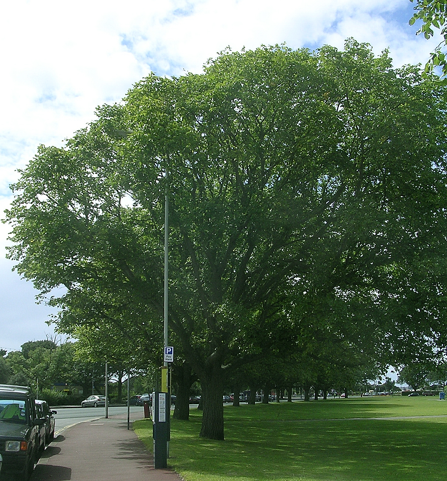 Photo taken by author. Southsea Common, August 2007.